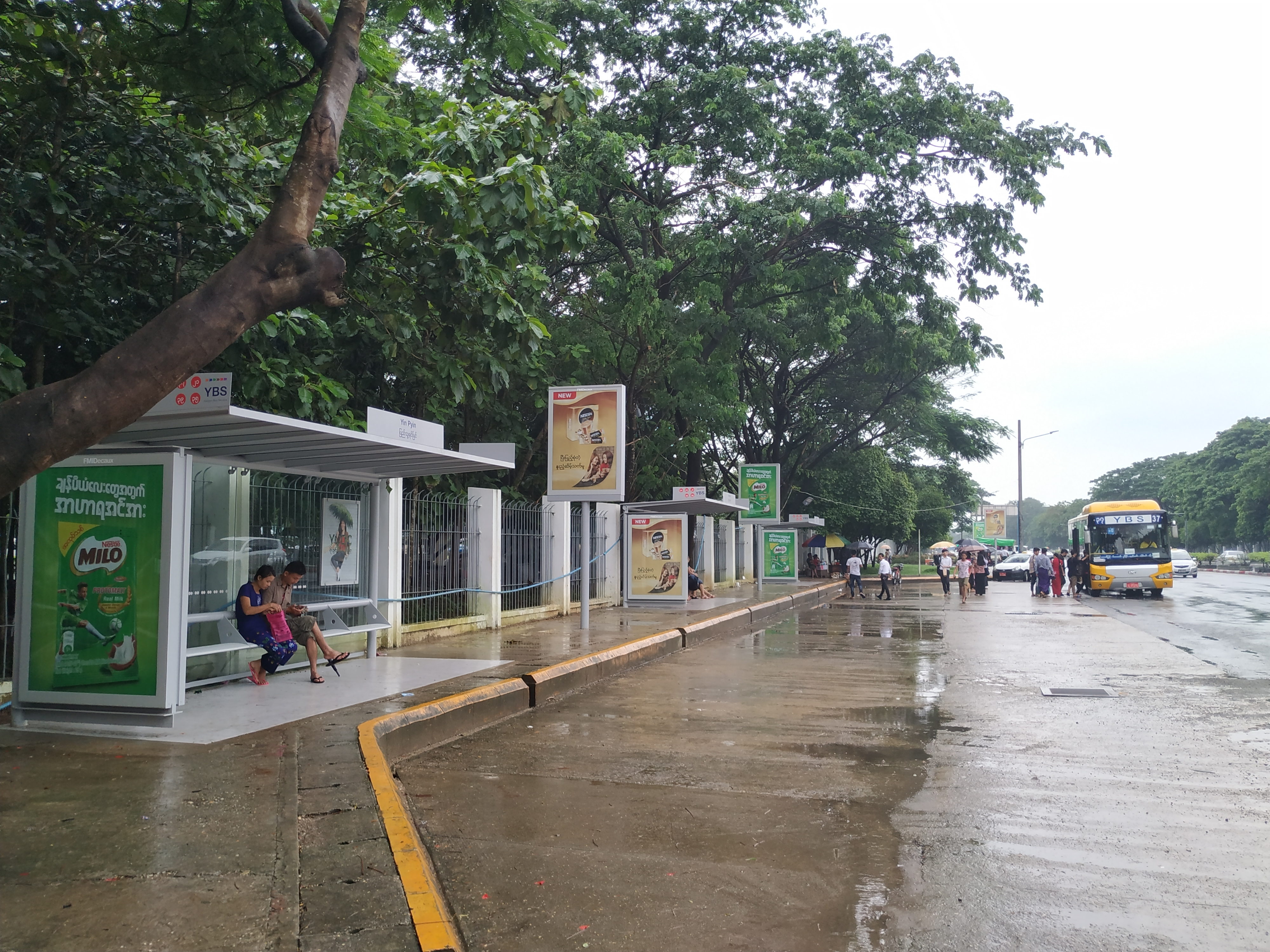 YBS Yin Pyin Bus Stop, Pyay Road, Yangon မြန်မာဘာသာ: ဝိုင်ဘီအက်စ် ရင်ပြင်ကားမှတ်တိုင်၊ ပြည်လမ်း၊ ရန်ကုန်